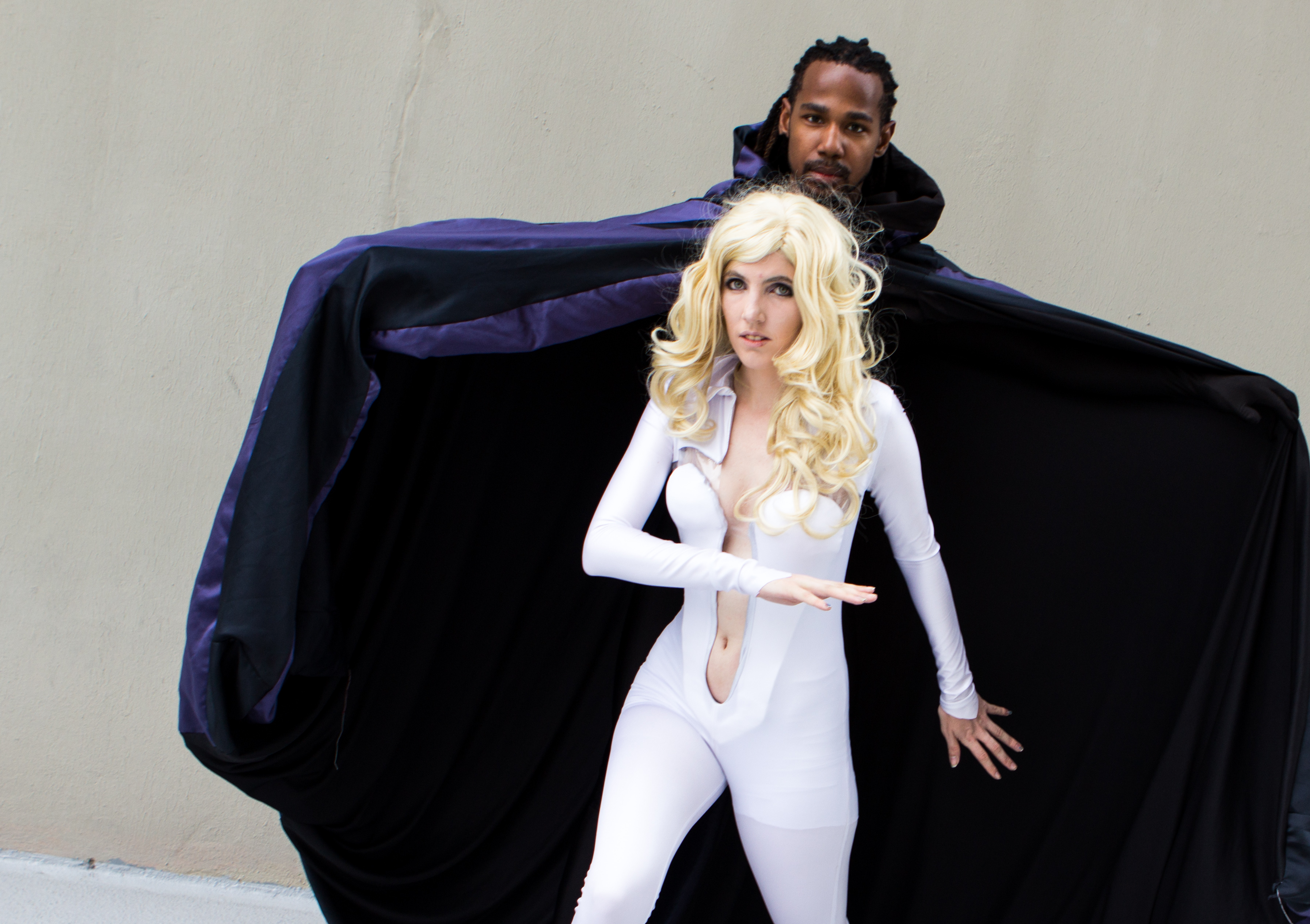 Marvel Knights shoot Cosplay at Dragon*Con 2013.